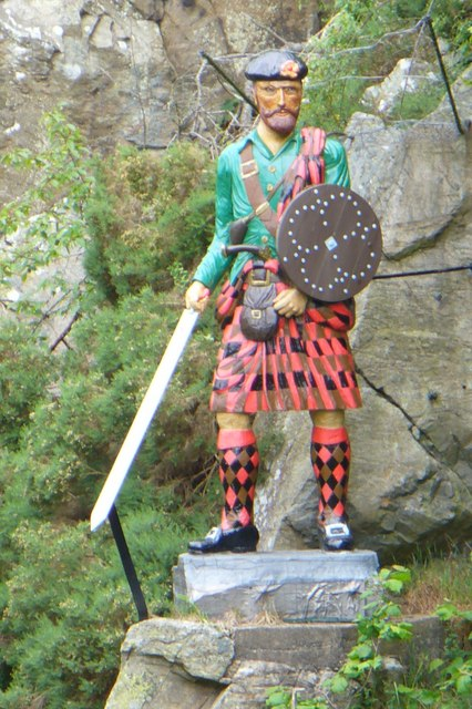 Rob Roy, Culter Allegorical statue of famous Highland brigand, Rob Roy, above the Culter Burn. Rob Roy himself probably never visited Aberdeenshire and the statue more likely should commemorate Gilderoy. Gilderoy was a local freebooter who sometimes based himself in the Burn o' Vat before he was caught and hung in Edinburgh. This statue is the latest in a series at this spot.